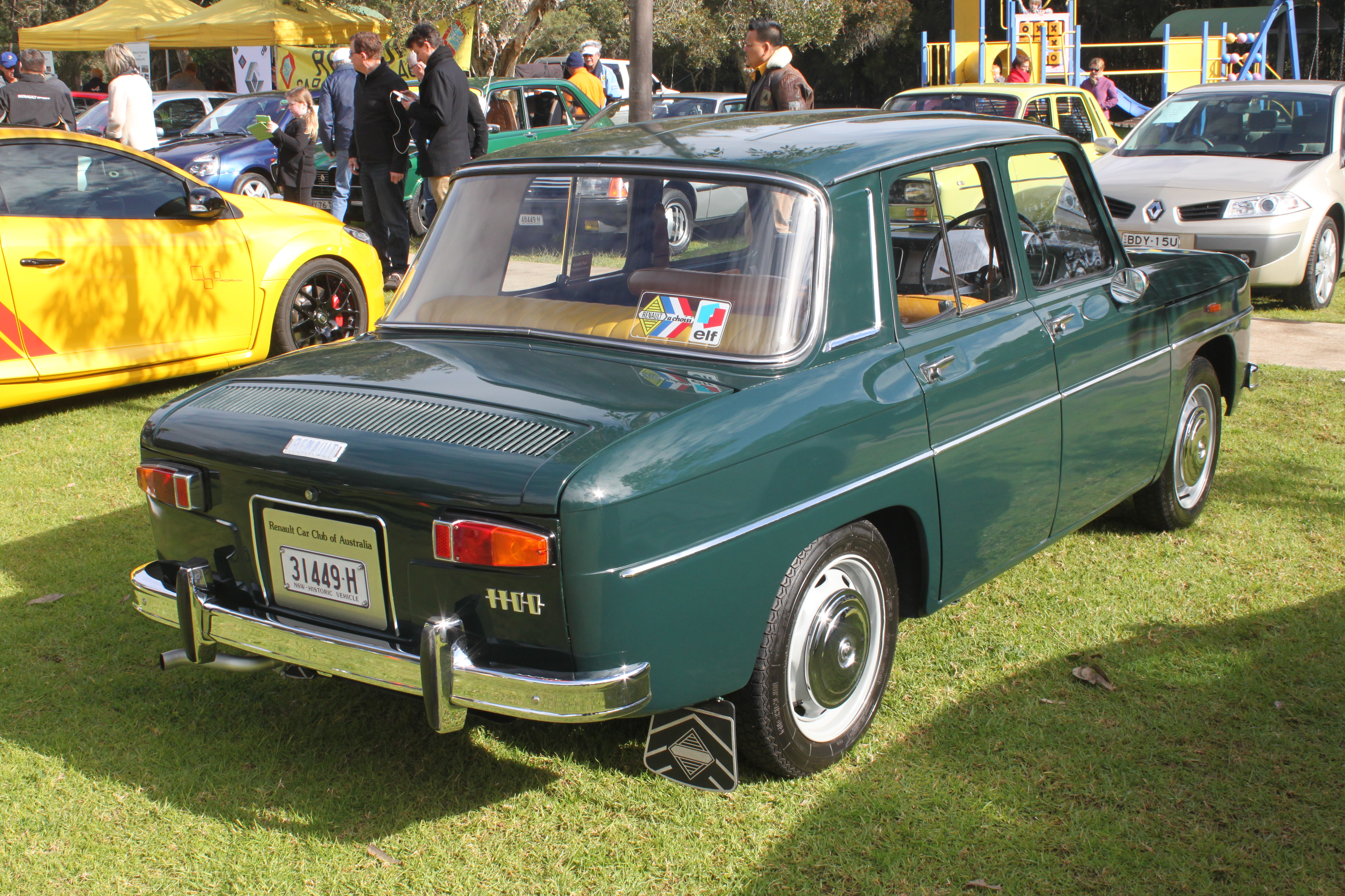 All French Day, Silverwater Park, NSW July 2015